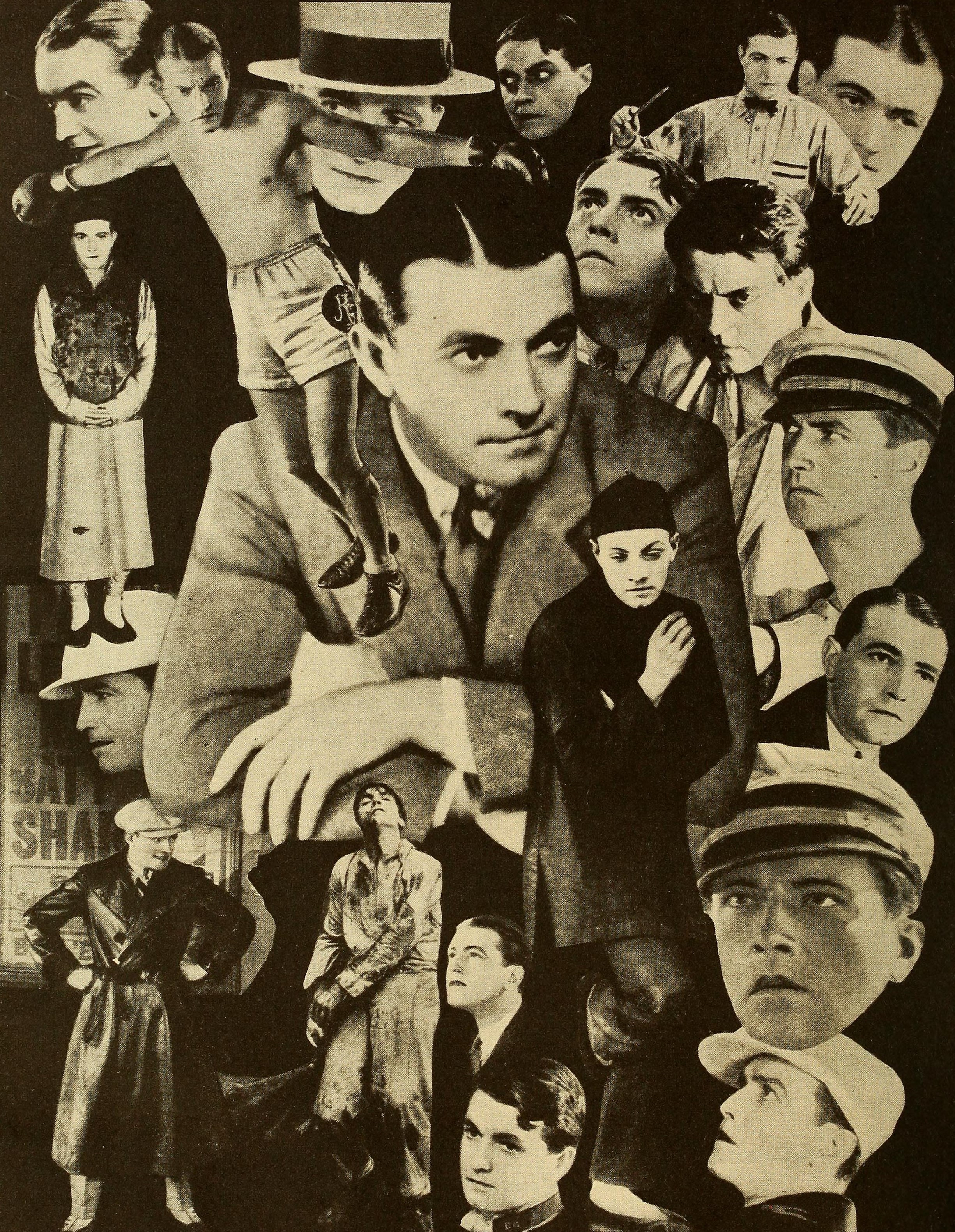 The New Movie, Dec. 1930